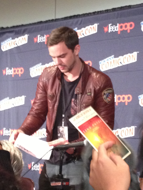 Nicholas Hoult at the 2014 New York Comic-Con.